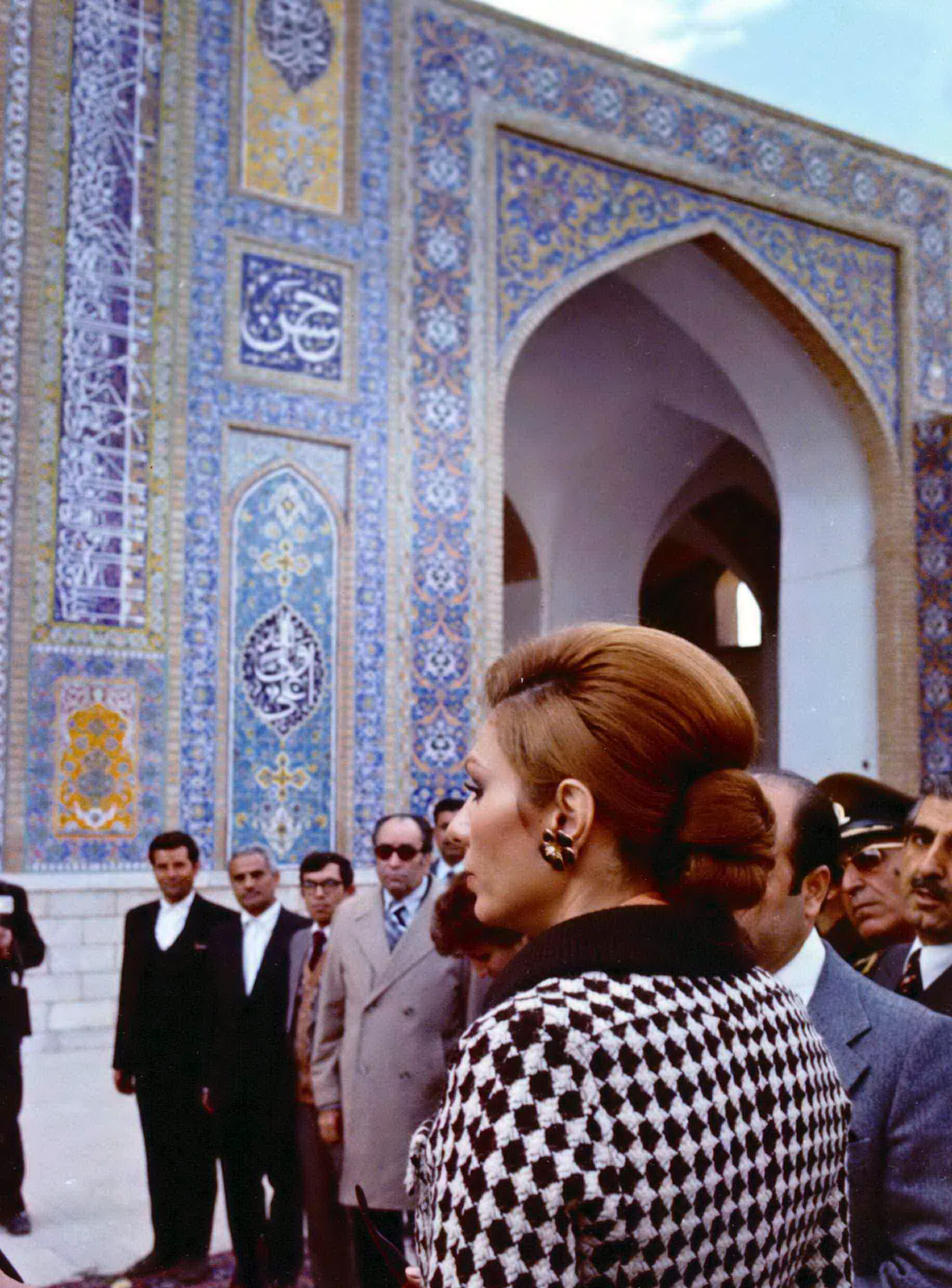 Farah Pahlavi in Jame Mosque of Sabzevar 1974-11-30